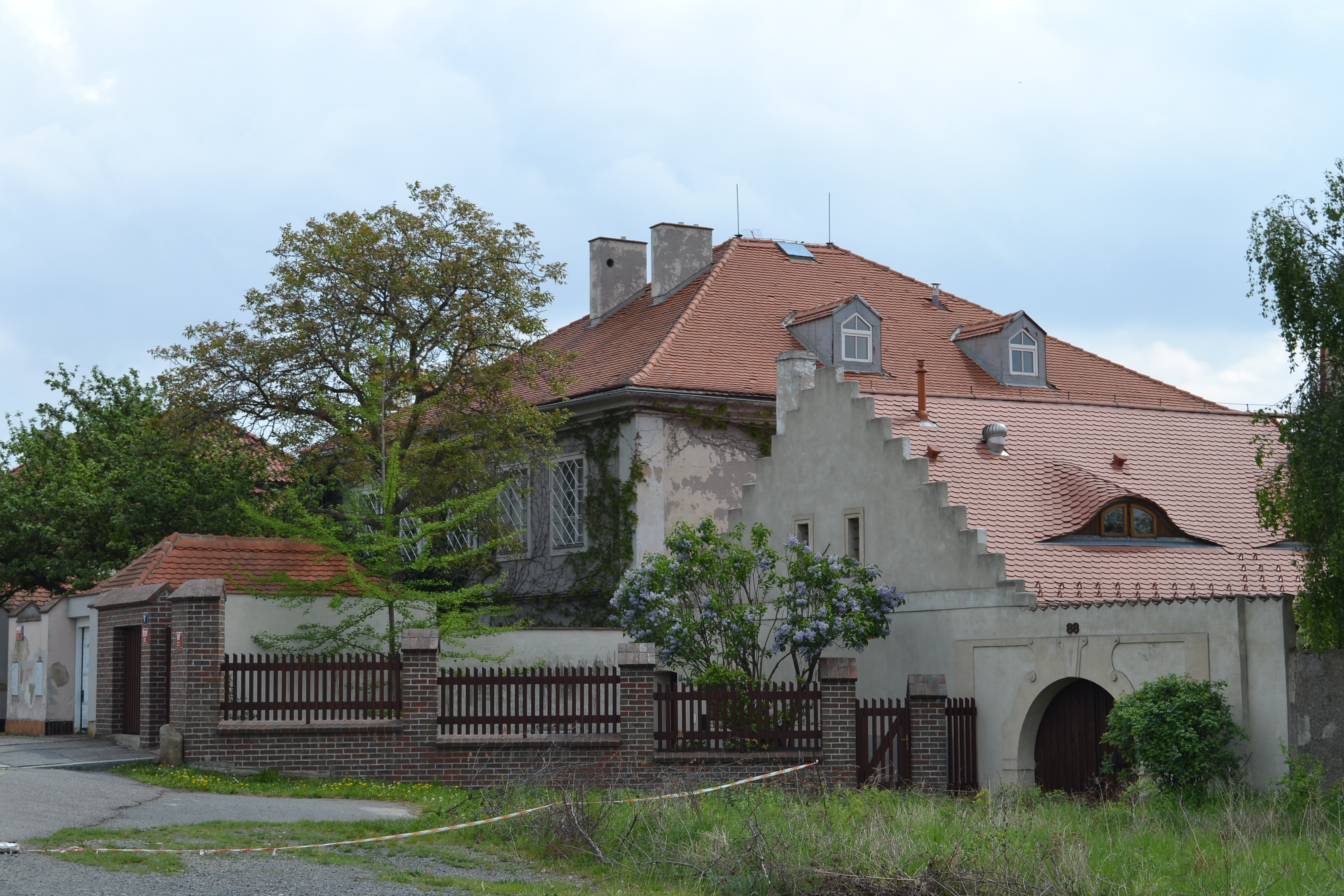 Kneislovka, Atletická 2339/7, Prague-Břevnov